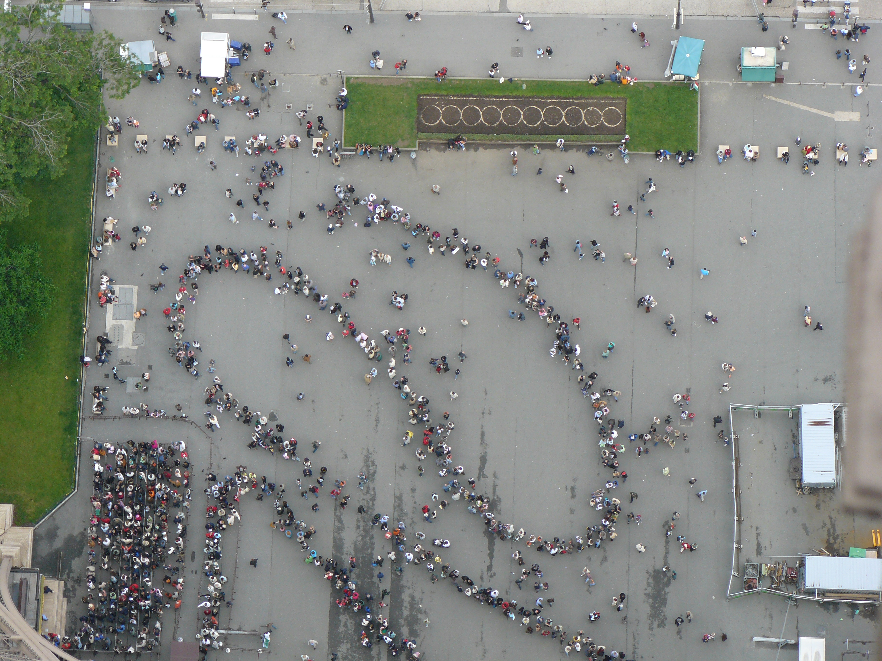 Queue in front of the Eiffel Tower